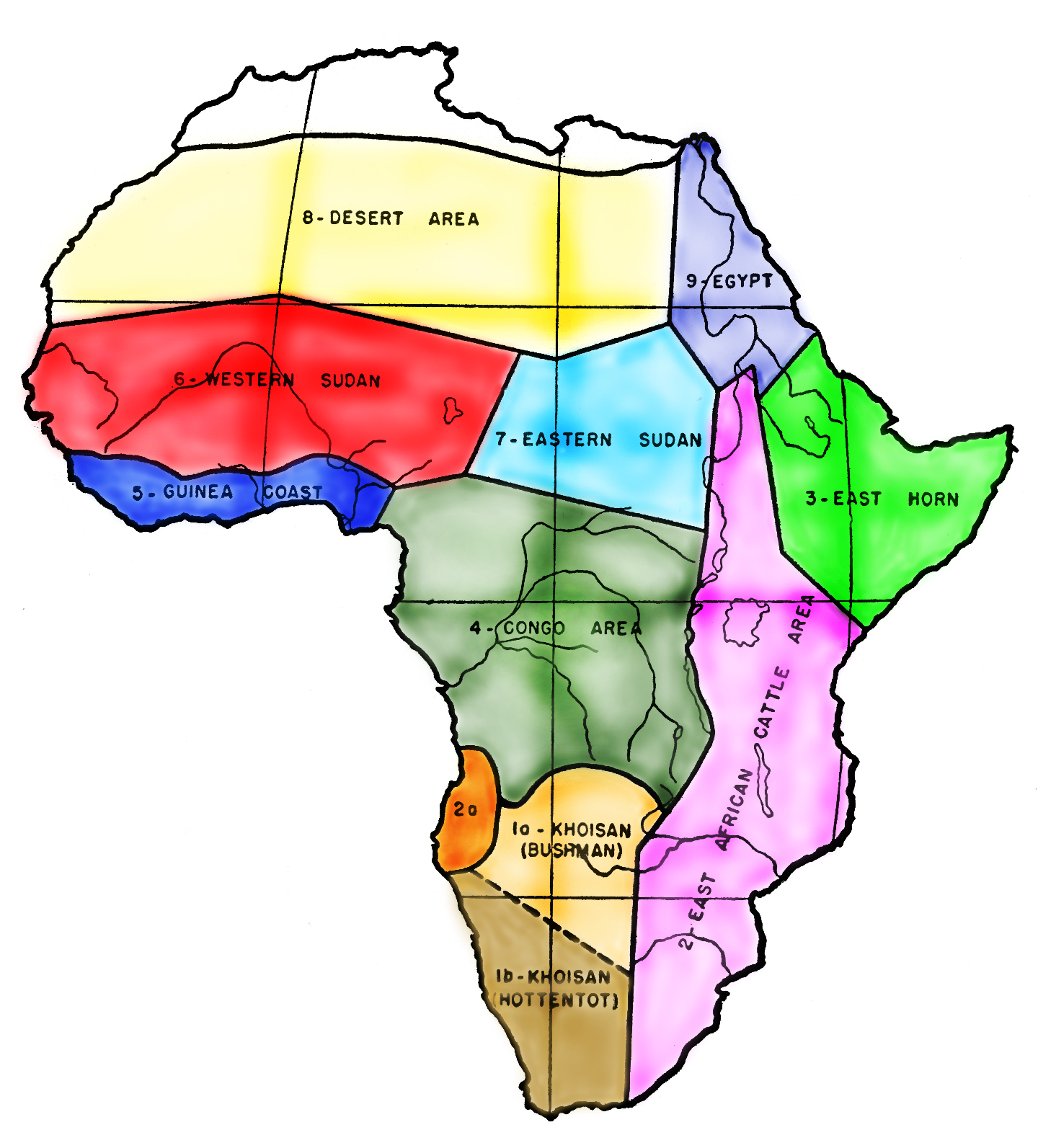 Cultural areas of Africa by Herskovitzs, 1945. Background of African Art Denver